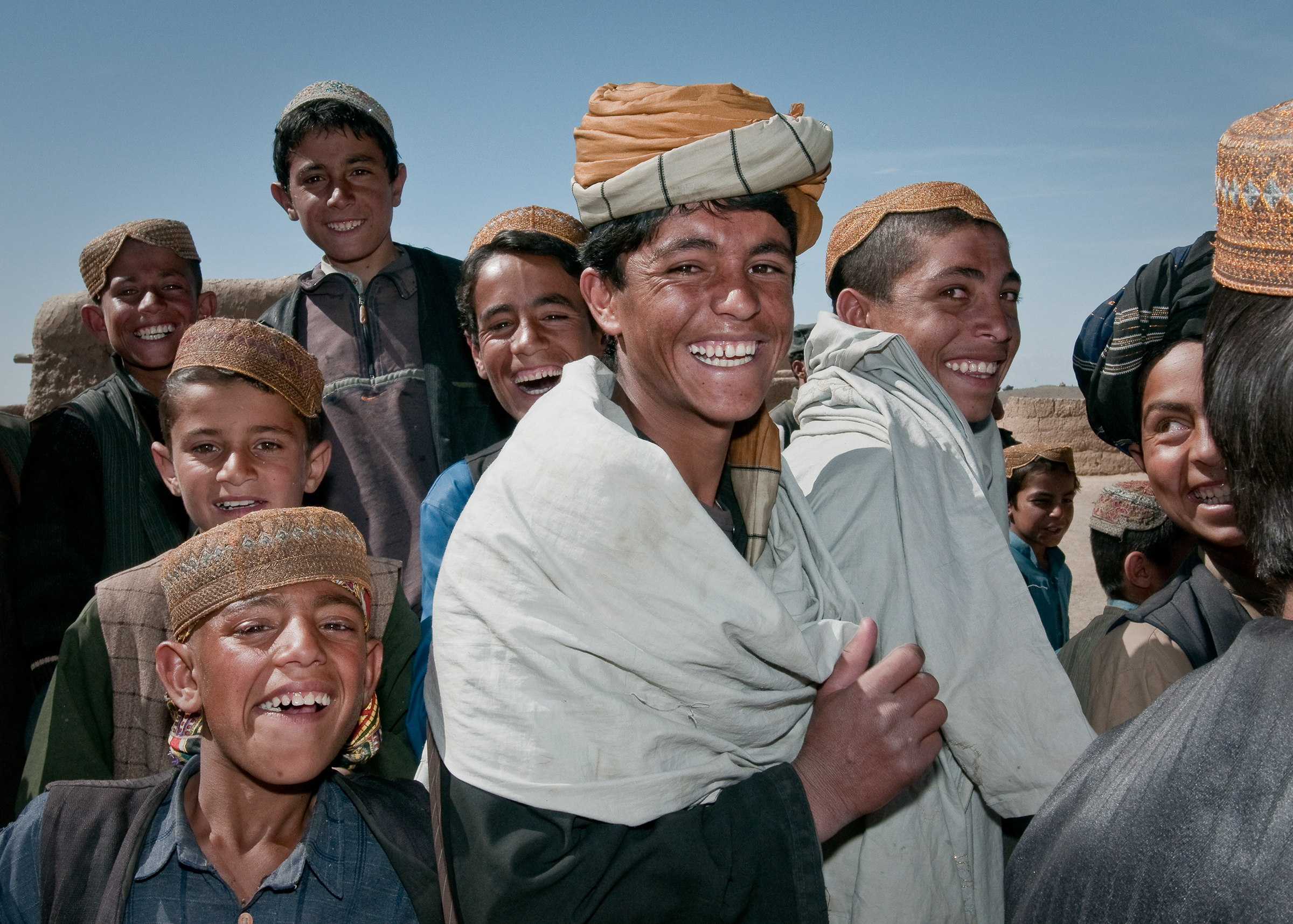 Afghan boys are happy to vie for attention in the Giro District of Ghazni province.